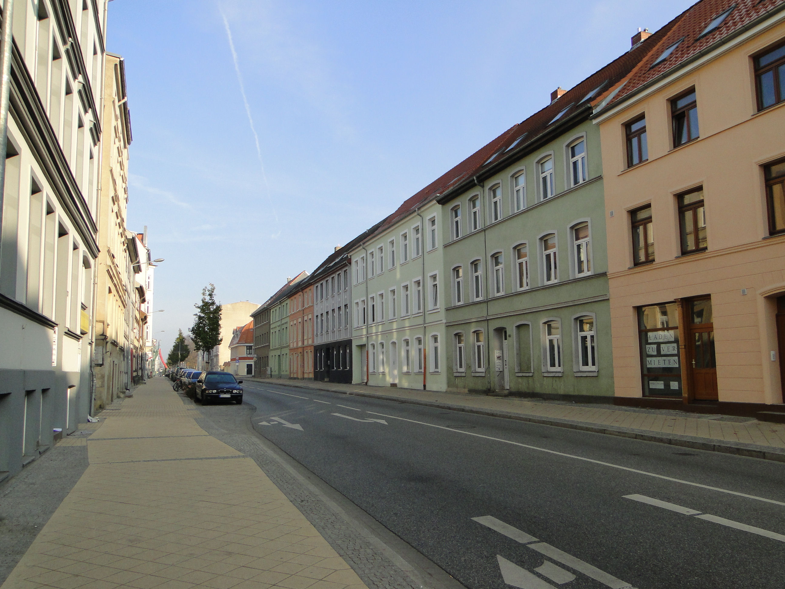 Street Werderstraße in Schwerin, Mecklenburg-Vorpommern, Germany